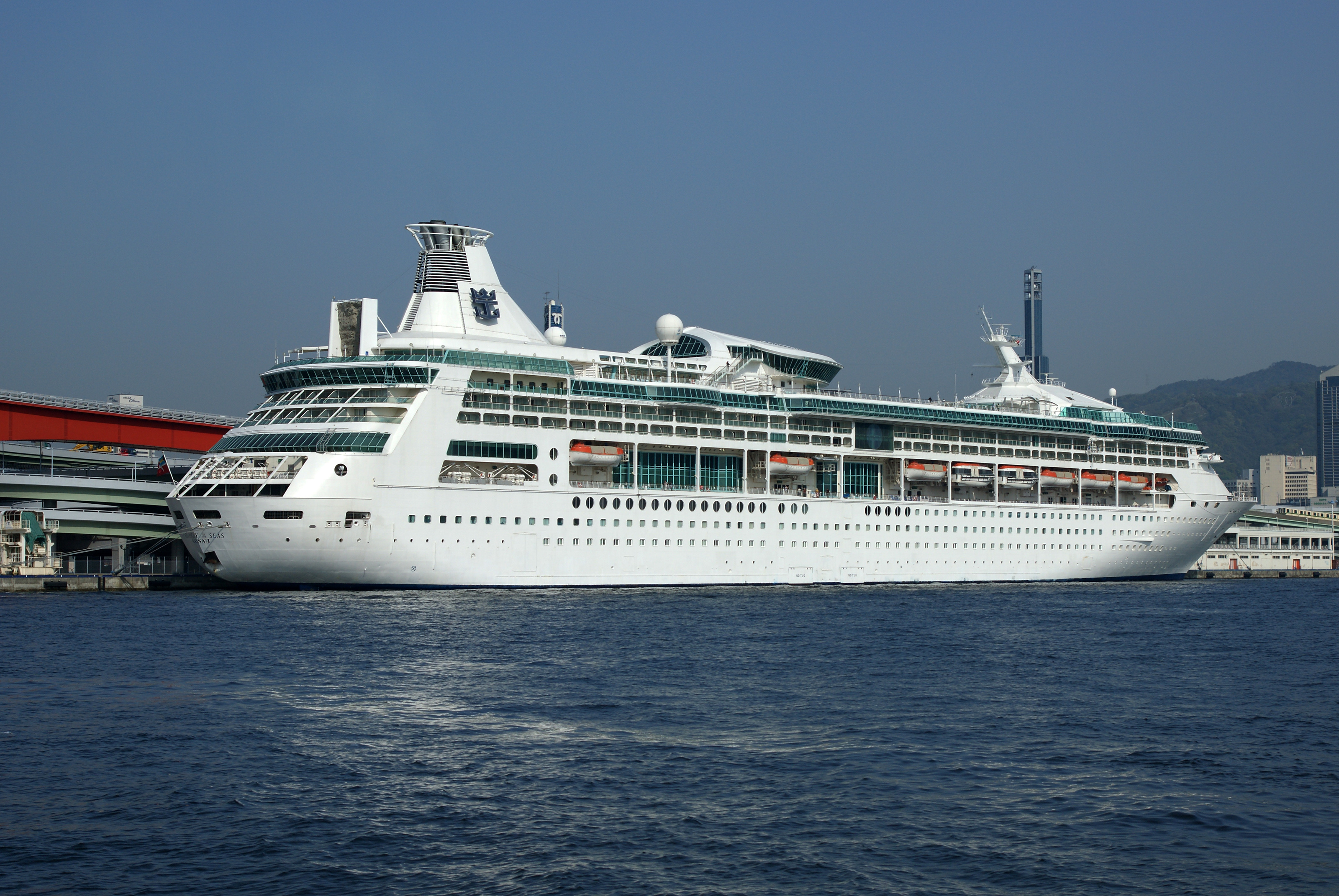 Rhapsody of the Seas who anchors at Kobe Port Terminal of the Kobe harbor ( Kobe, Hyogo prefecture, Japan)